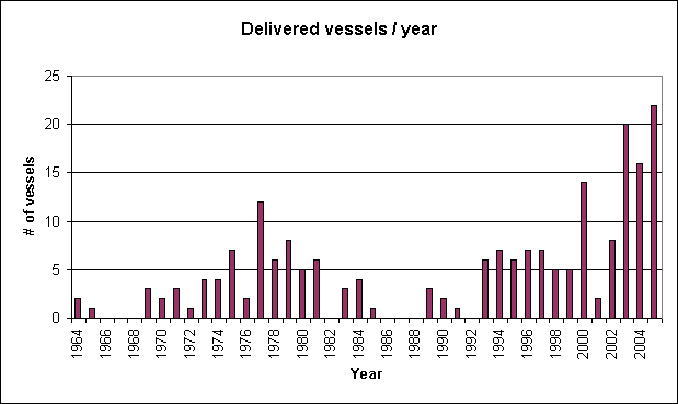 The number of new LNG carriers built per year.